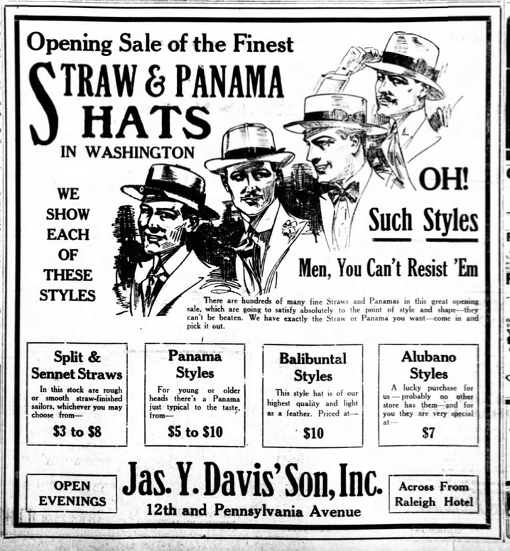 Newspaper advertisment for men's hats styles, 1919.